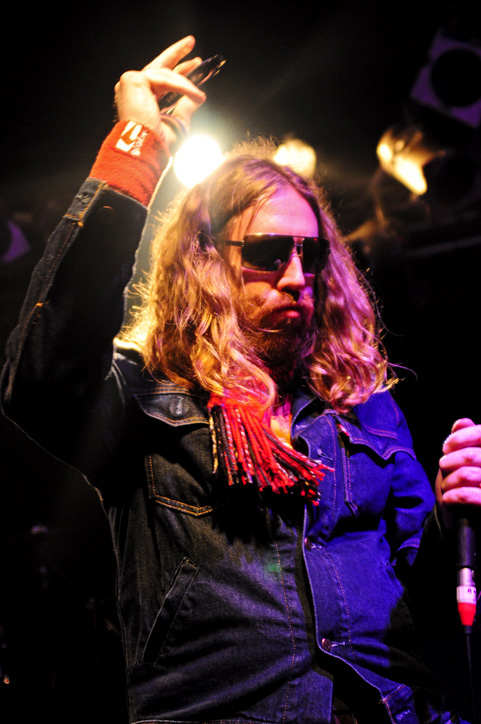 Kram @ Amplifier Bar (21/8/2009)